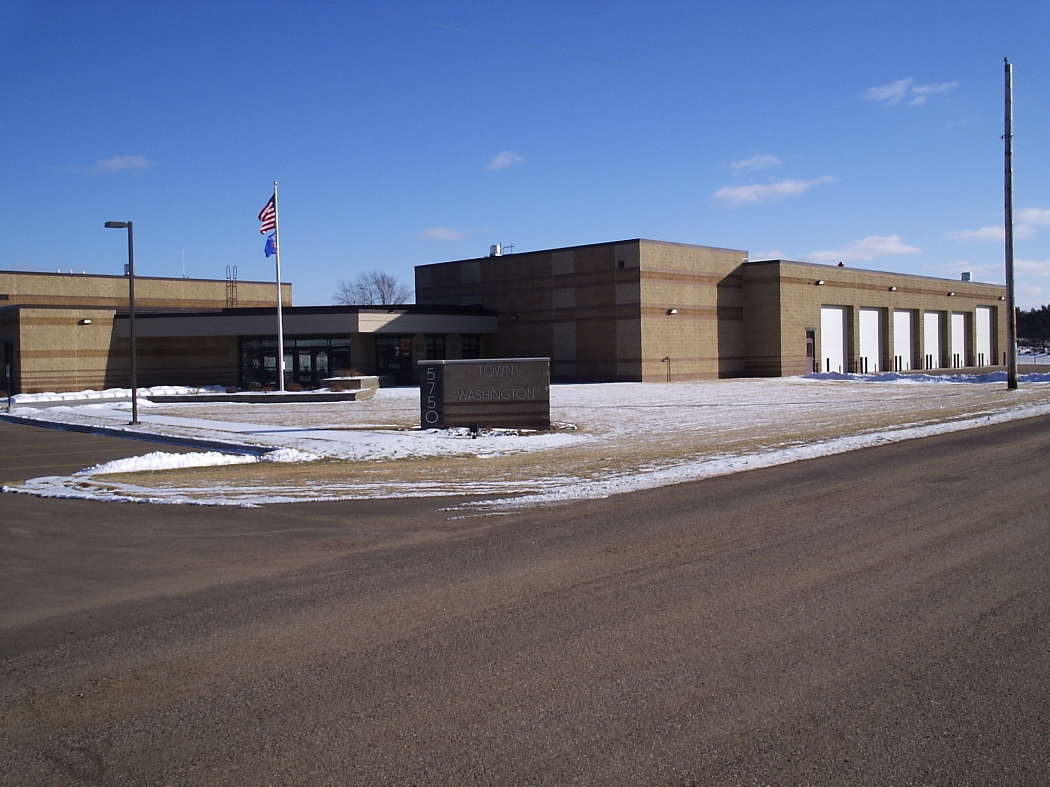 The Town of Washington town hall.